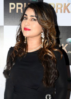 Inaugural ceremony of Pakhi Hegde's PRK company